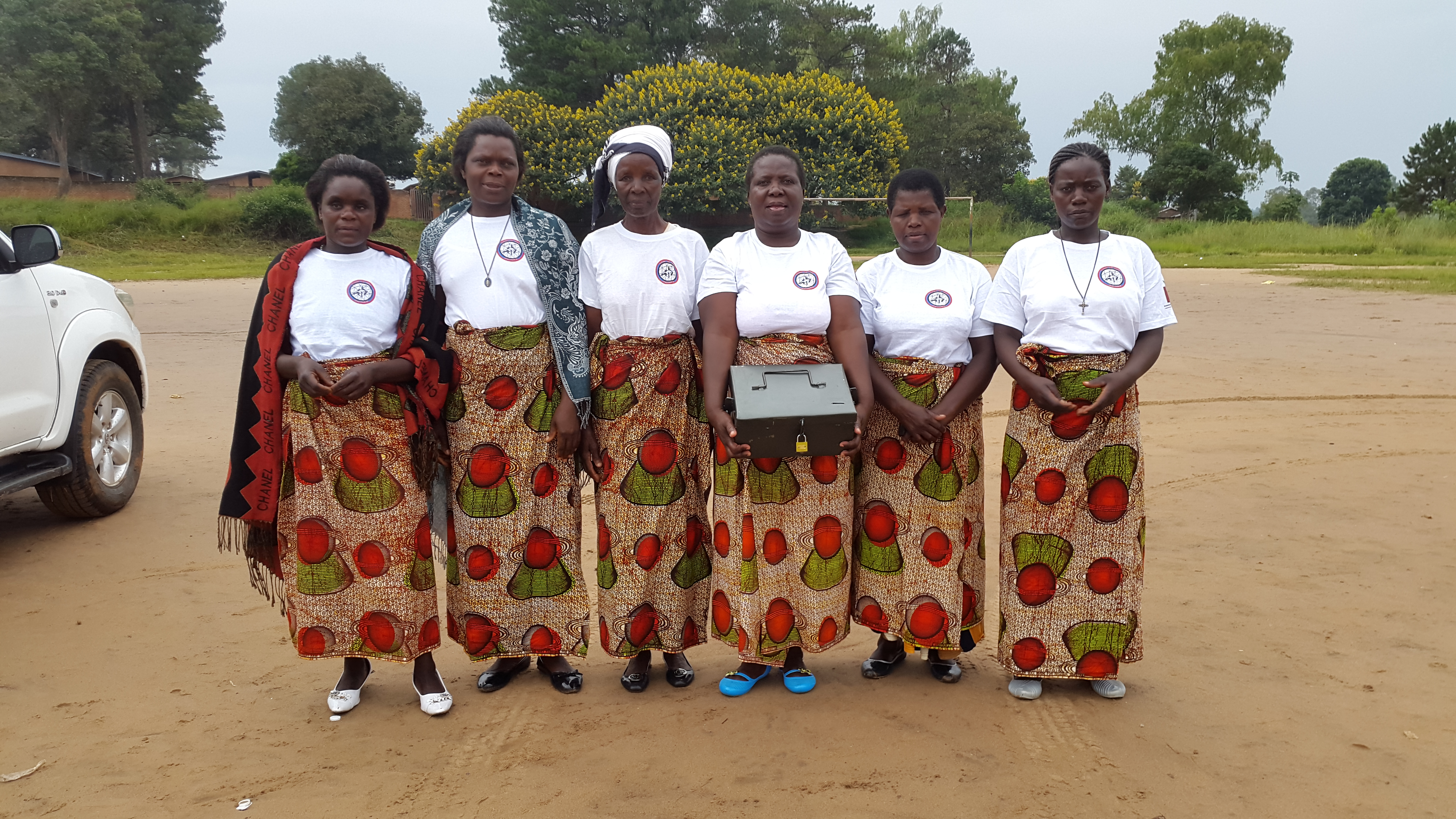 Women pose with their savings box from their group's Village Savings and Loans Association (VSLA) This is an image of "African people at work" from Malawi